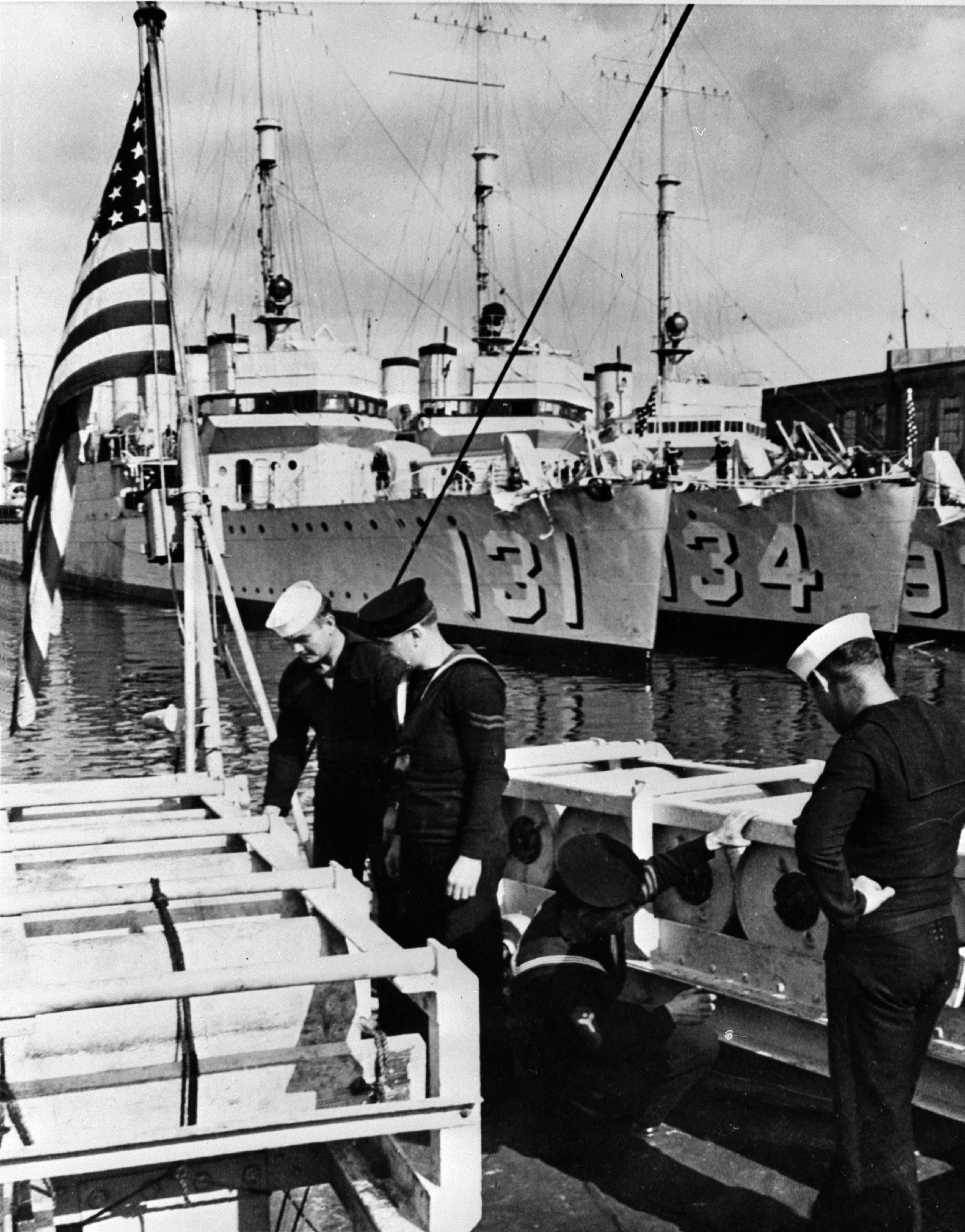 Royal Navy and U.S. Navy sailors inspect depth charges aboard Wickes-class destroyers, in 1940. In the background are USS Buchanan (DD-131), and USS Crowninshield (DD-134). On 9 September 1940 both were transferred to the Royal Navy. Buchanan became HMS Campbeltown (I42), which was expended as a demolition ship during St. Nazaire Raid on 29 March 1942. Crowninshield became HMS Chelsea (I35) which was transferred to Russia on 16 July 1944 and renamed Derzkiy. She was finally returned to the UK for scrapping on 23 June 1949.